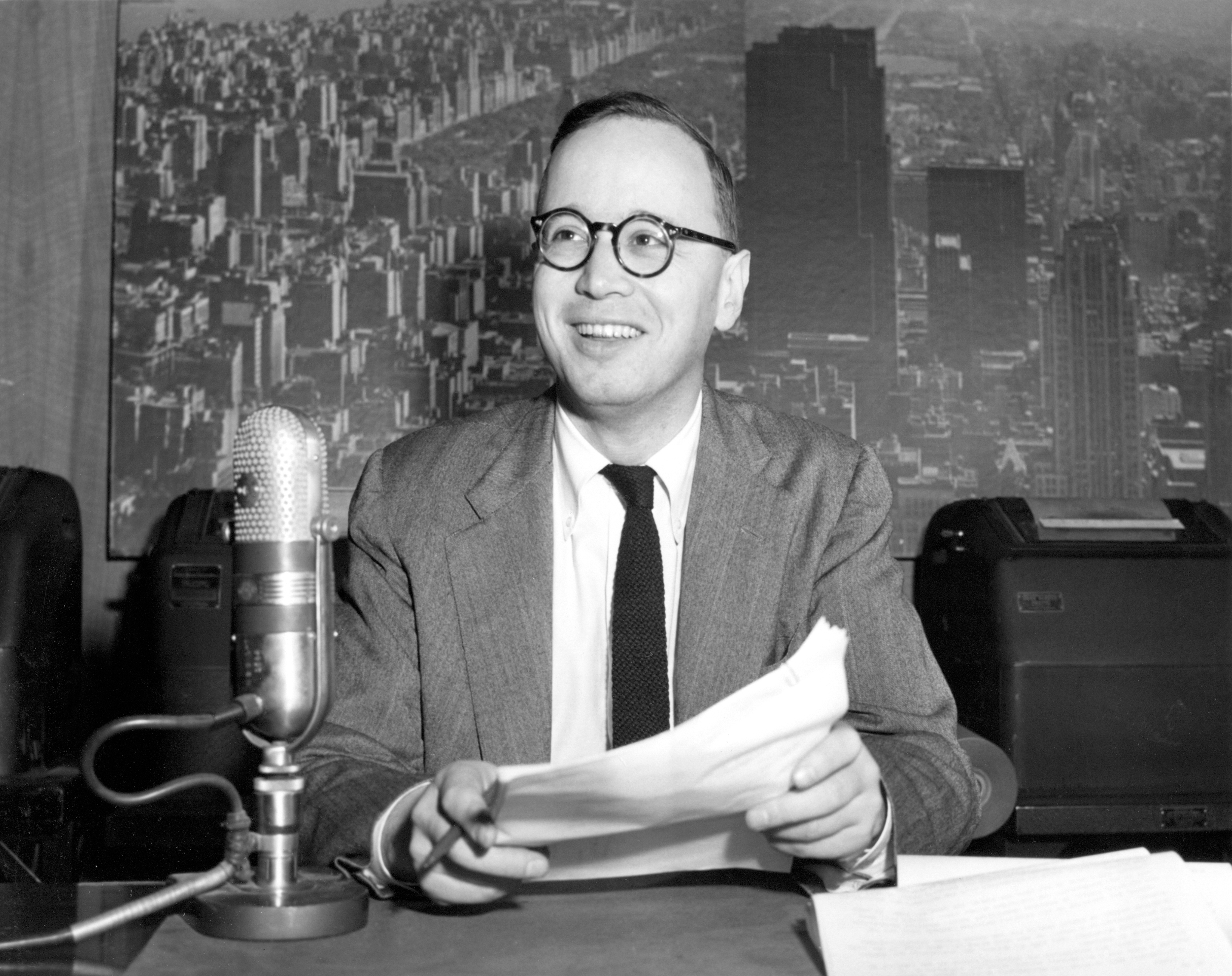 Photo of Arthur M. Schlesinger, Jr. from an early television program he hosted on NBC.